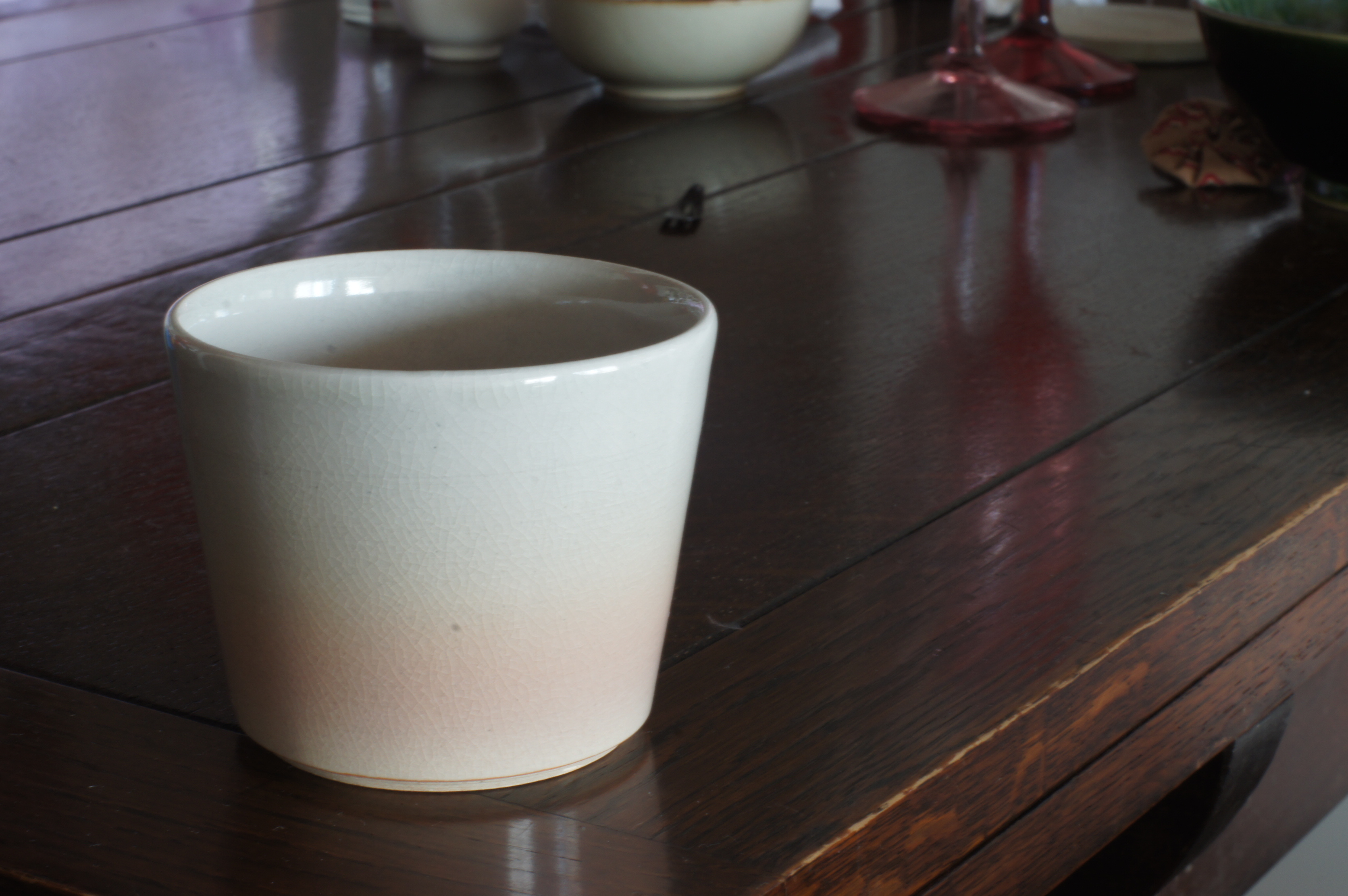 NEX5 + new FD 50mm f1.4